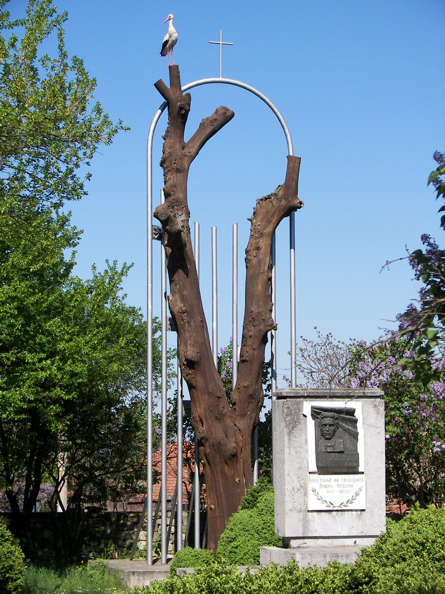 Kukrina